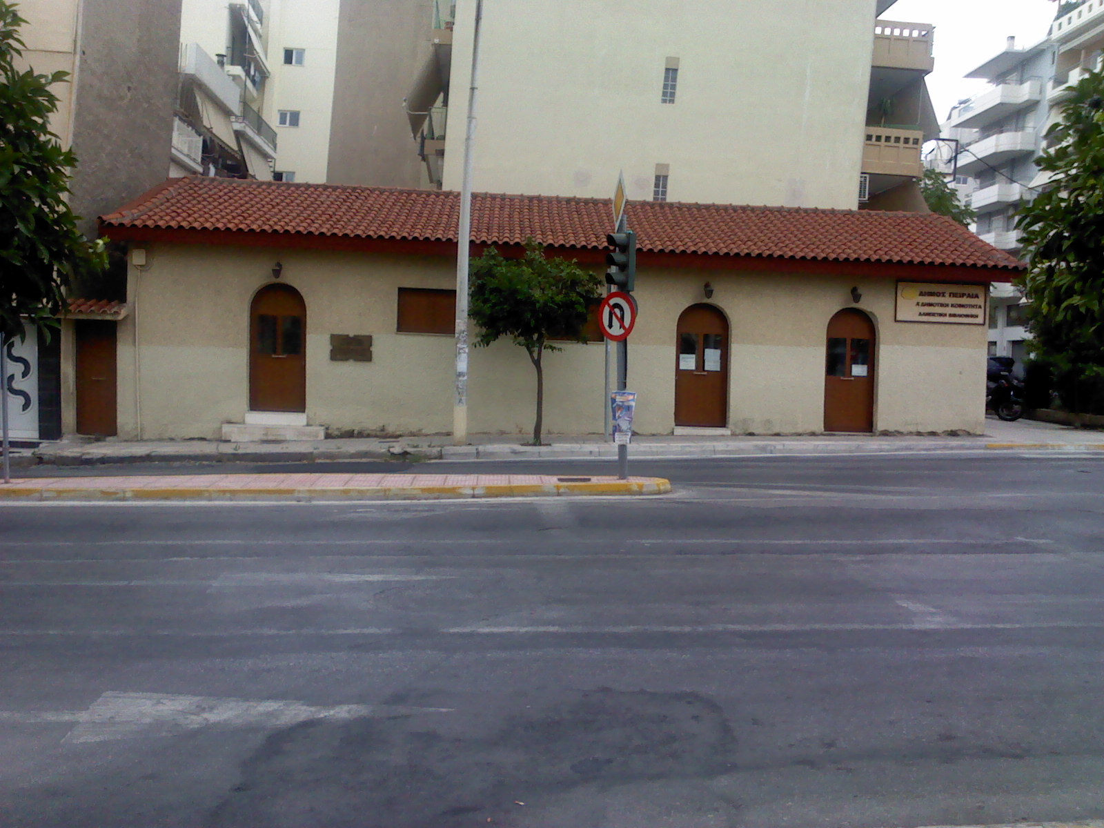 Library Xatzikiriakeio